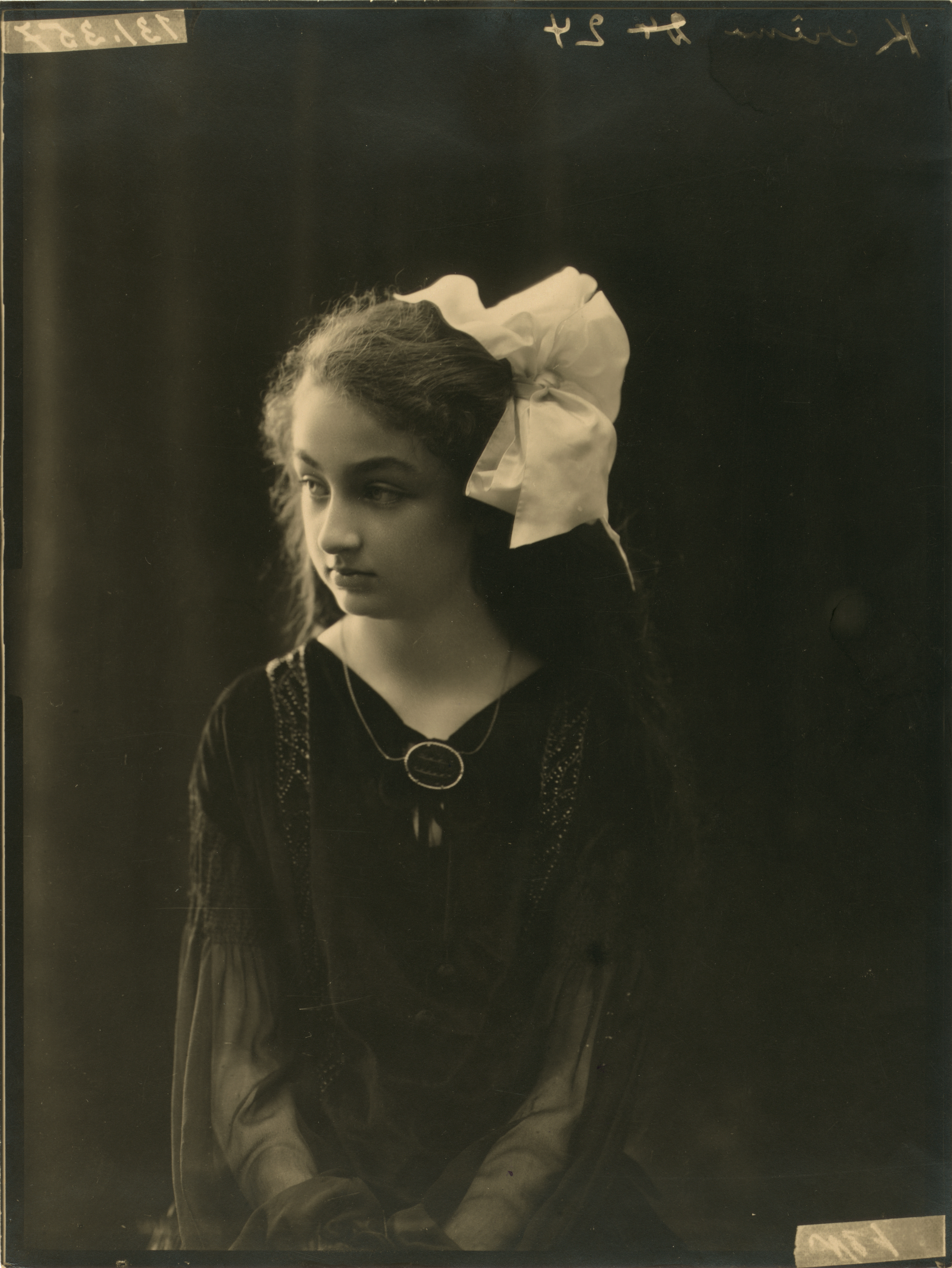 Half-length portrait of Princess Durru Shehvar (1914-2006), seated and facing left. Princess Durru Shehvar was the daughter of Abdülmecid II, the last Ottoman Caliph. She is nine and a half years old in this photograph.